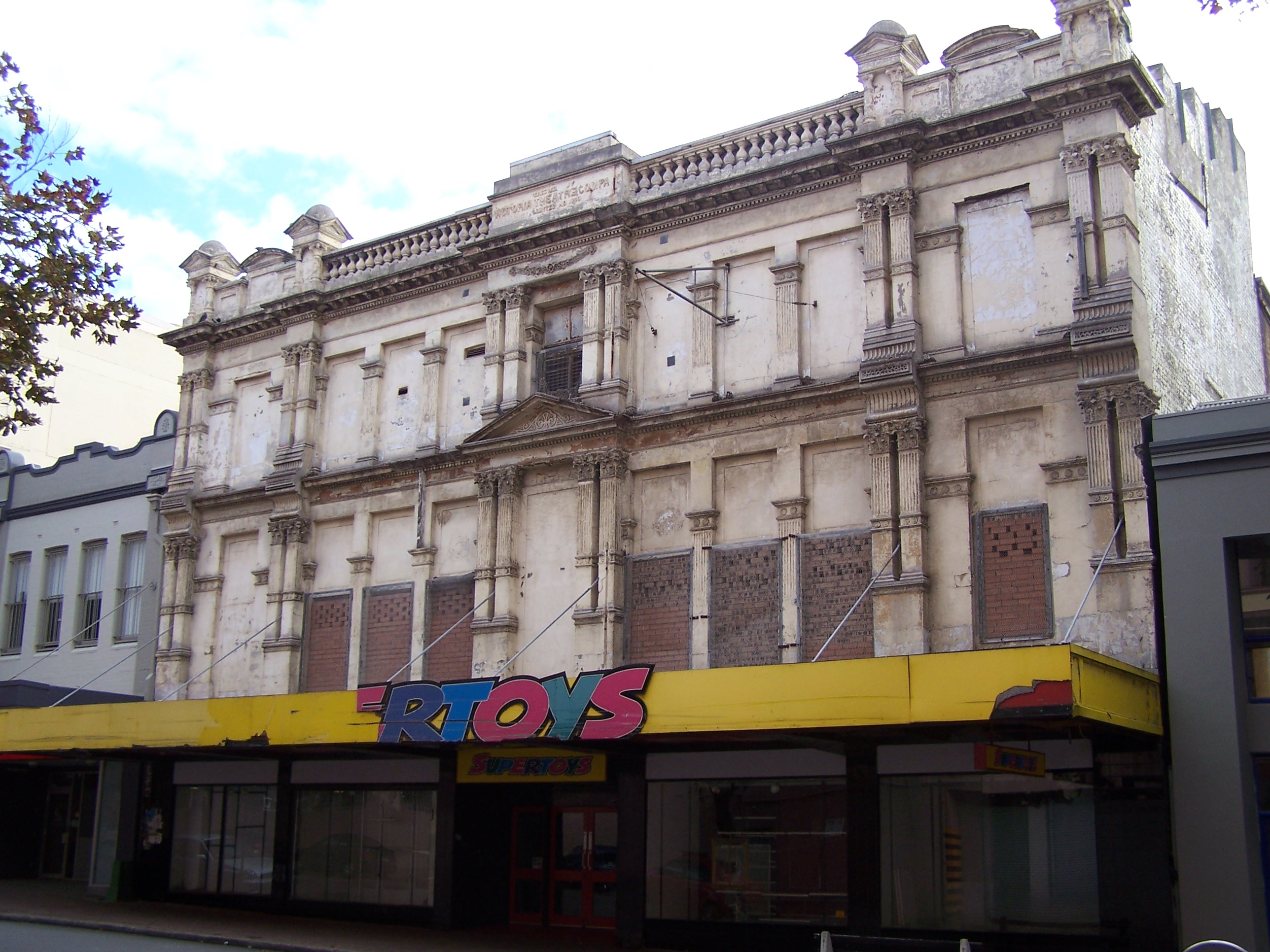 The Victoria Theatre on Perkins Street, Newcastle. Operated as Australia's first purpose-built theatre until after the Second World War.